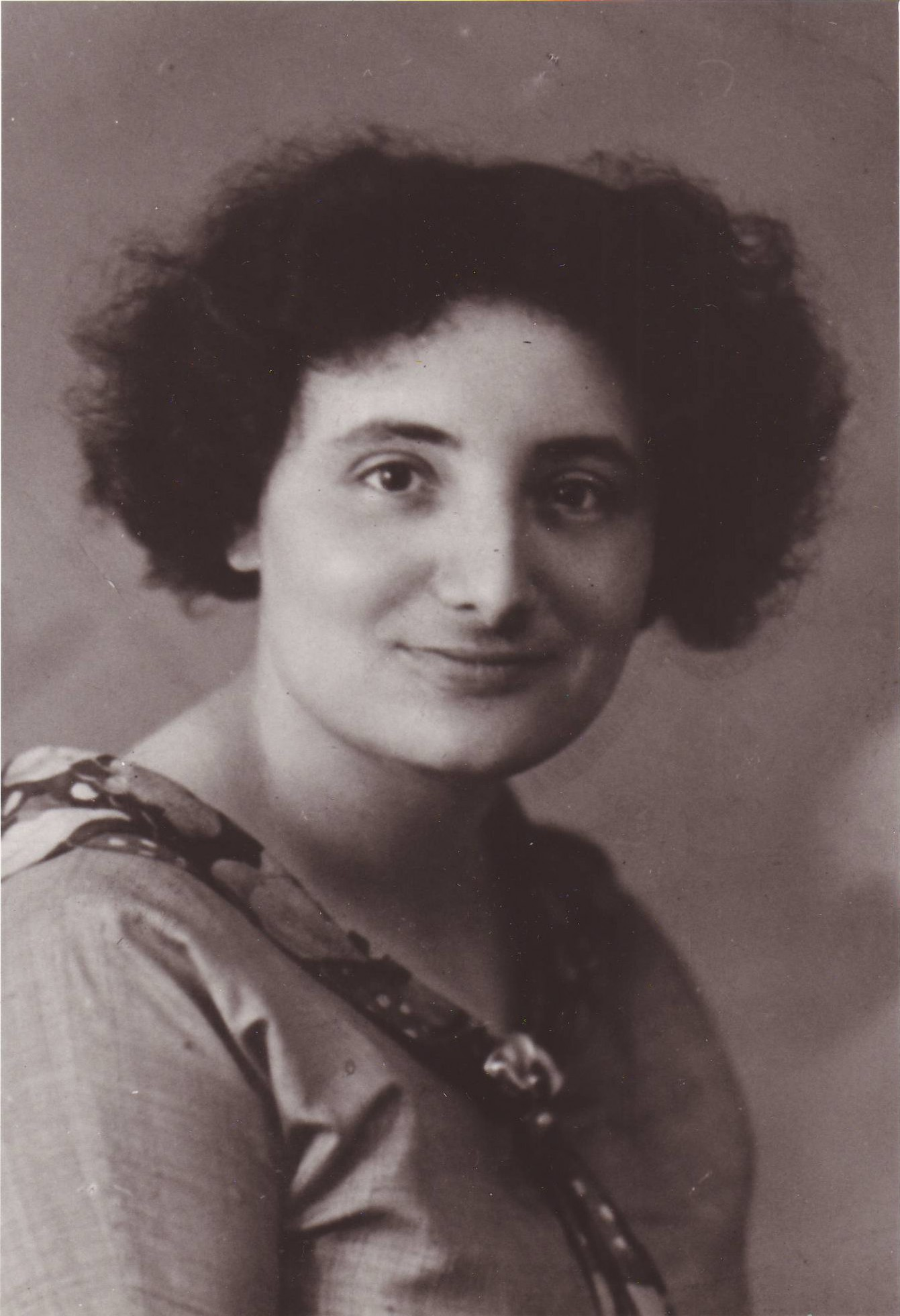 Portrait photograph of Dutch graphical artist Fré Cohen, 11 August 1903 - 14 June 1943.